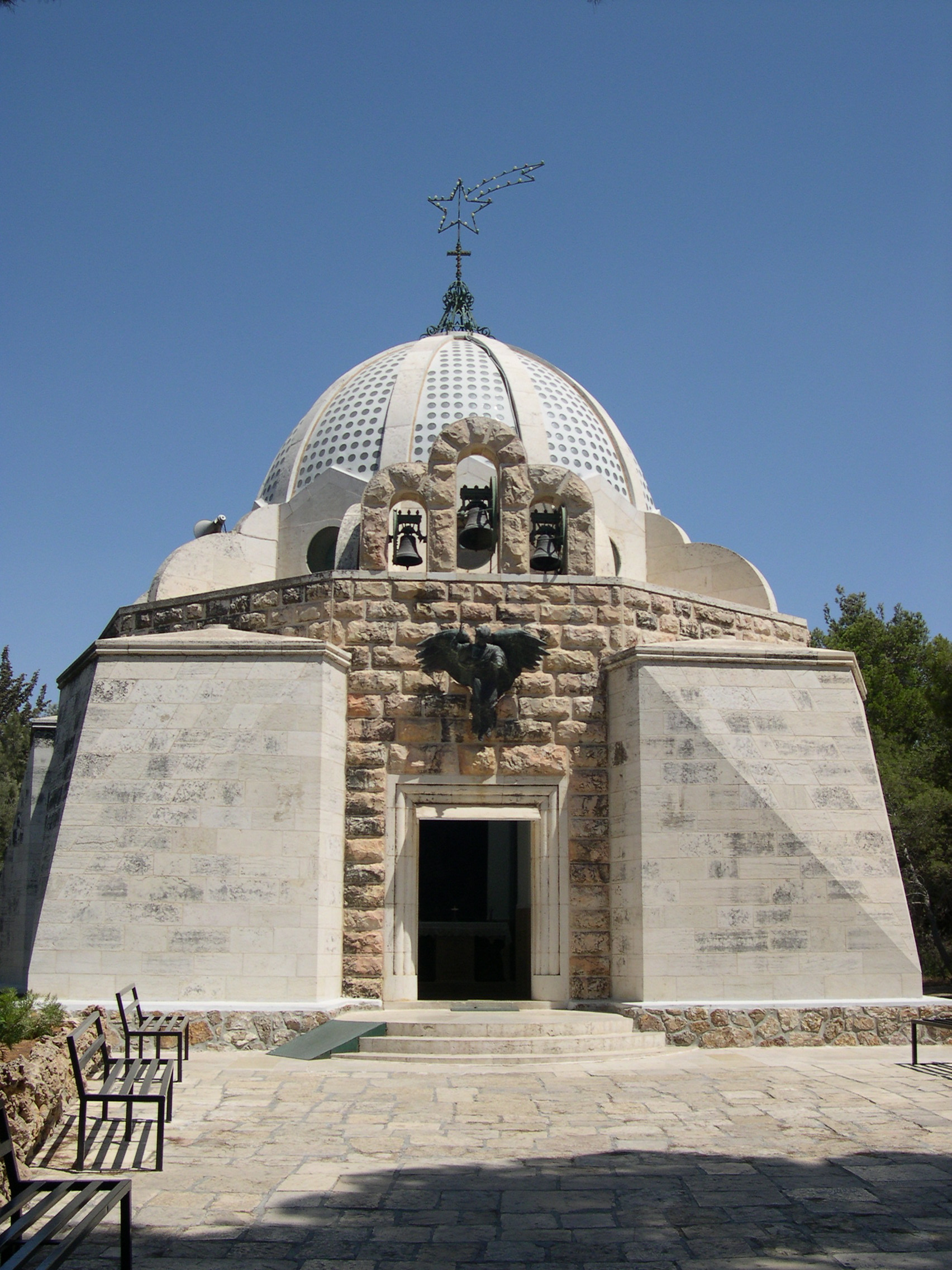 or maybe it was a chapel. anyway, i guess the shooting star over it should have clued me in to what happened here. instead i left just as clueless.